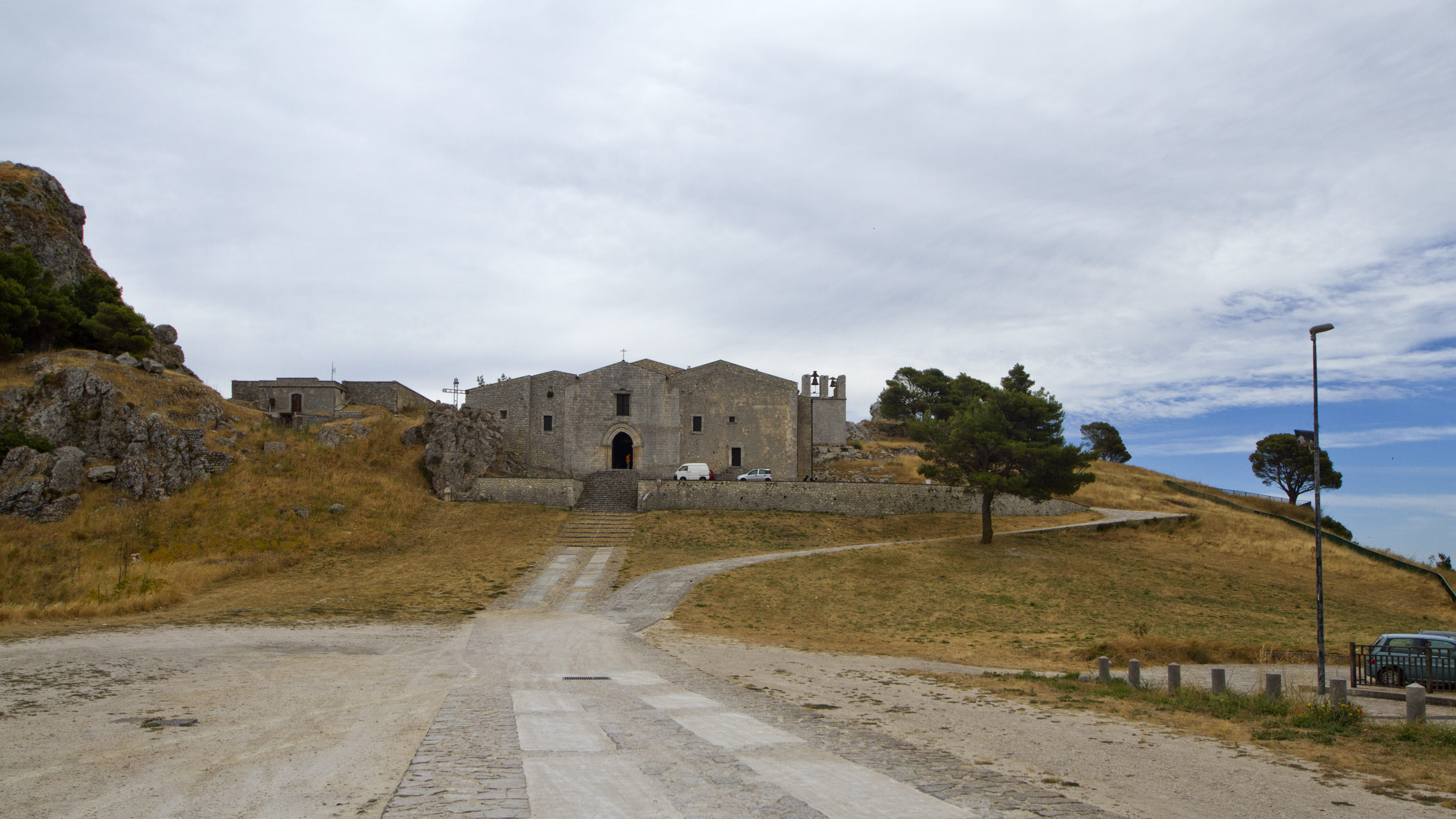 92010 Caltabellotta, Province of Agrigento, Italy